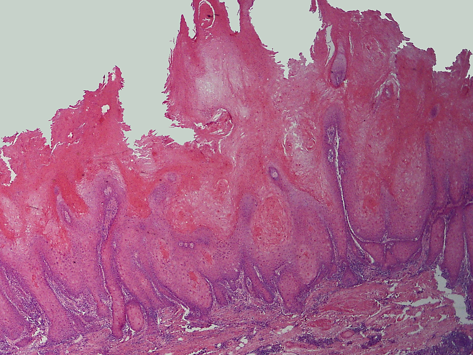 Verrucous squamous-cell carcinoma (magn. 2×)